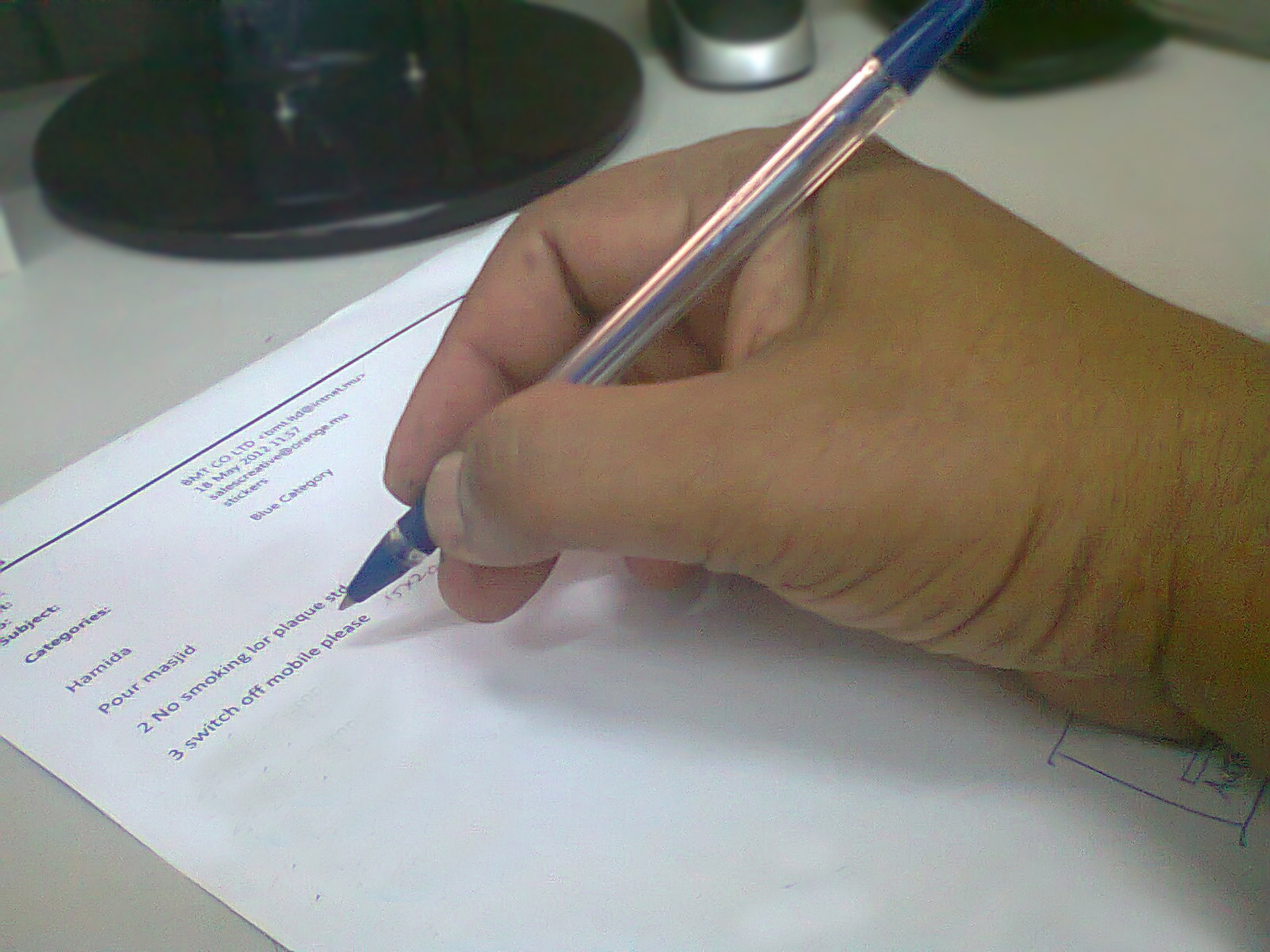 male hand with pen